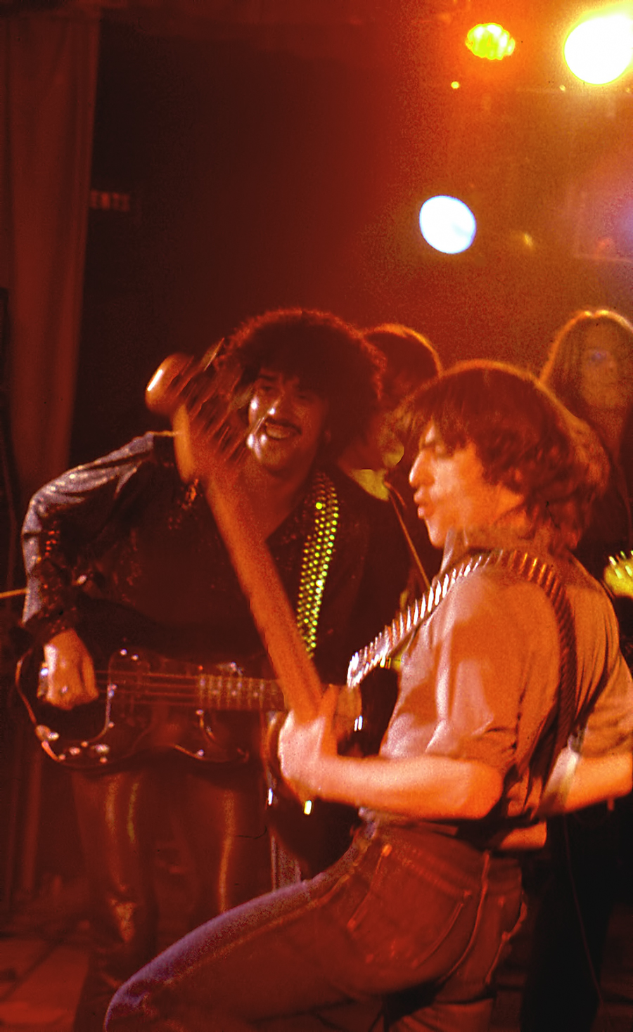 Phil Lynott and Pete Briquette playing bass guitars with the Greedy Bastards in Dublin, 20 December 1978